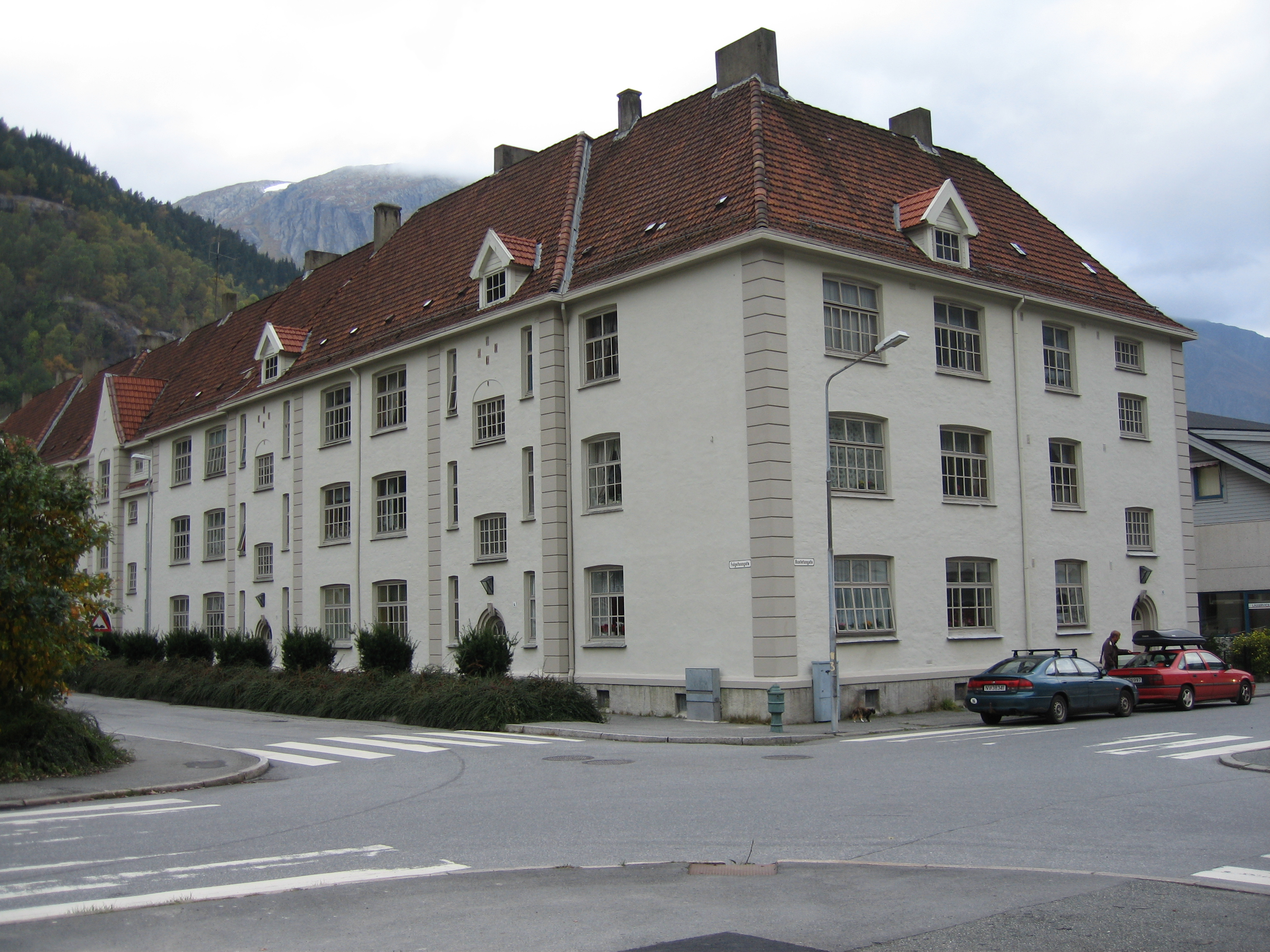 View of Murboligen, Odda. The building is known from the book “Bikubesong” written by Frode Grytten.